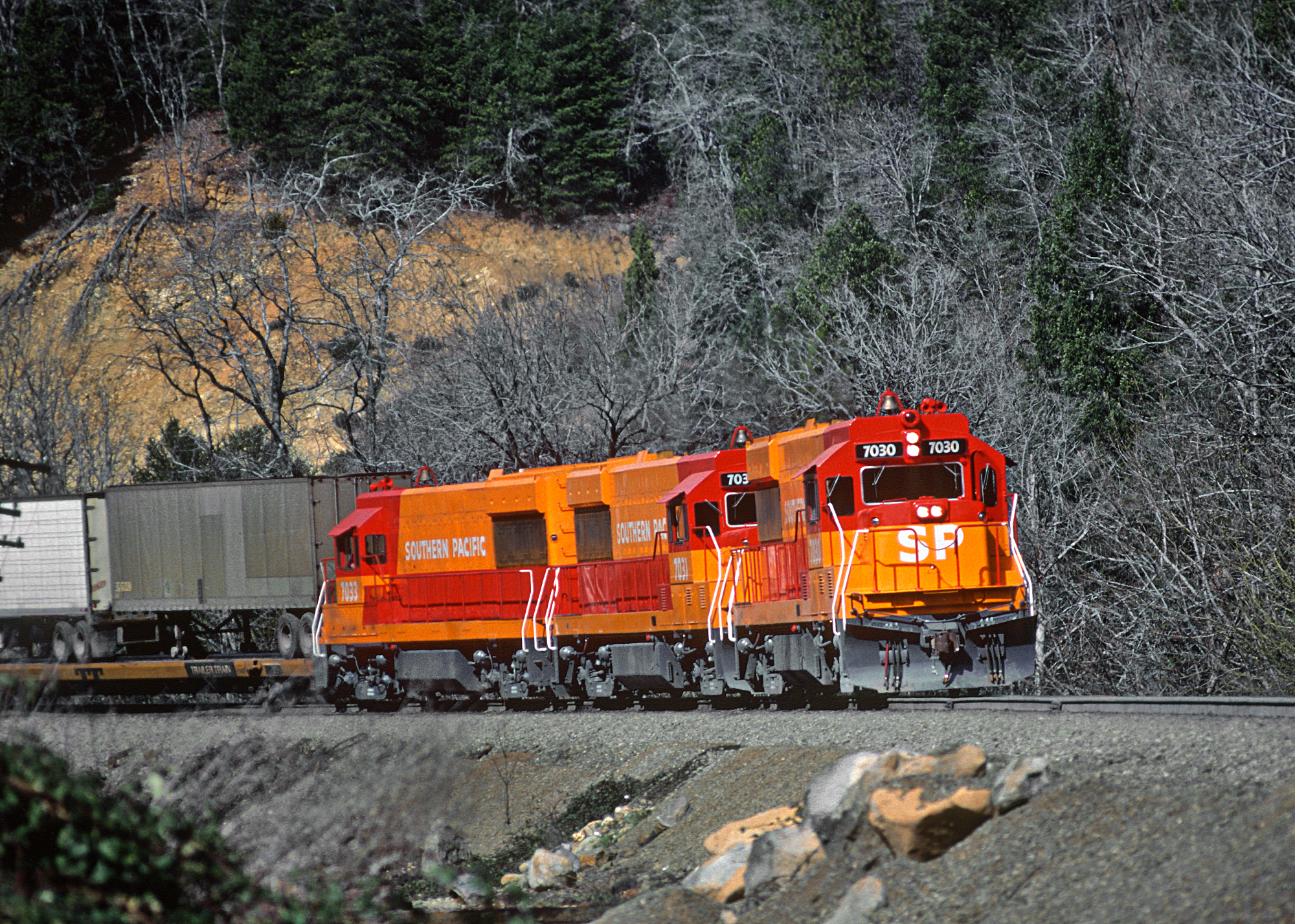 Among Roger Puta's slides I found this one of three SP TE70-4S units. I found this explanation on the site "In 1977, SP sold 4 written off U25B's to Morrison Knudsen, for re-engining with Swiss built Sulzer 3000hp (derated to 2800 hp) V-12's. Not much was reused, only the trucks, traction motors, frame, main generator, cab and nose. The long hood was rebuilt 10 inches higher, and 4 inches wider to take the Sulzer engine, looking like a GP30 over the cab roof area. When released from MK, these units had a variation on the Daylight paint." The only information I have on the slide is these are SP 7030, 7031, and 7033 photographed by Roger in March 1978.